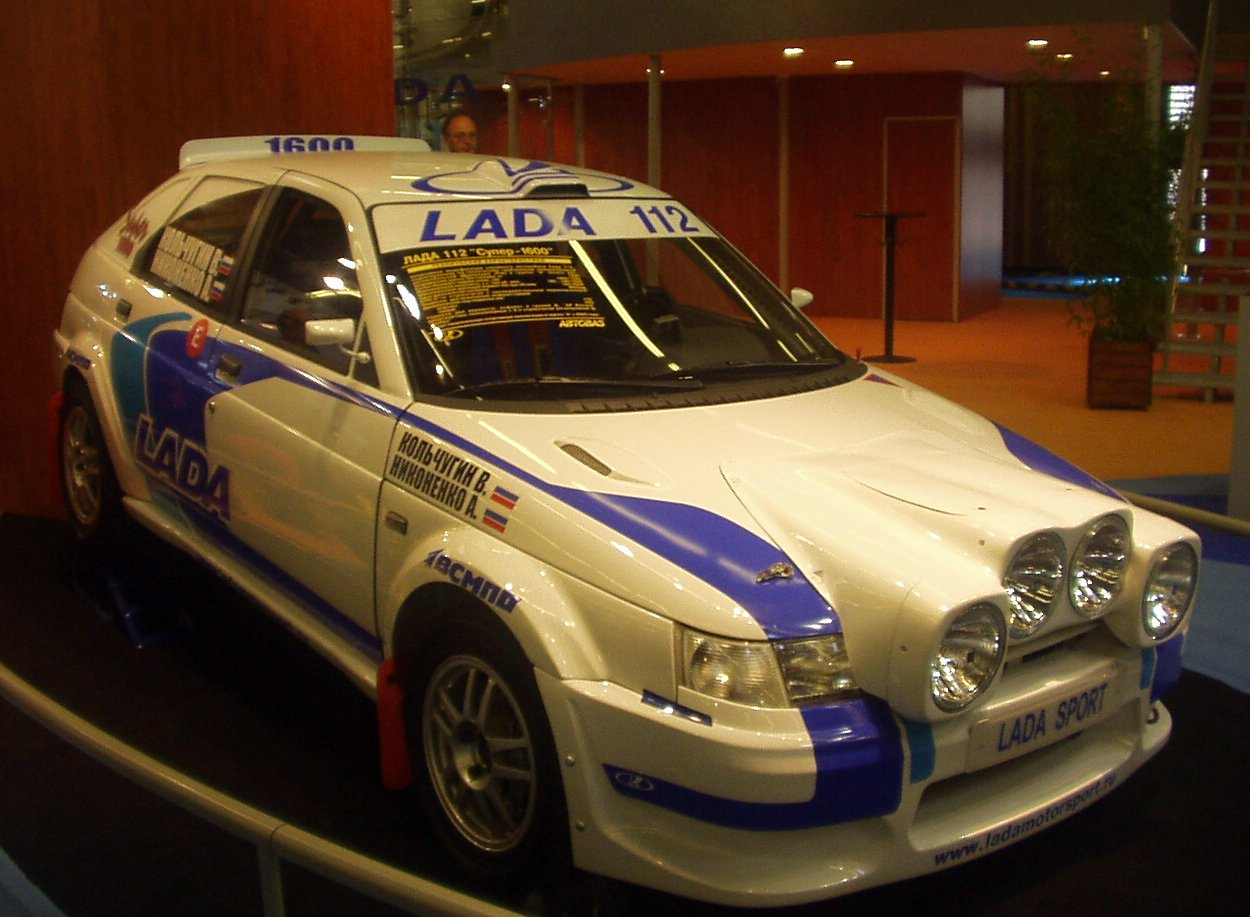 From Lada's motorsport division, a Lada 112 Rally